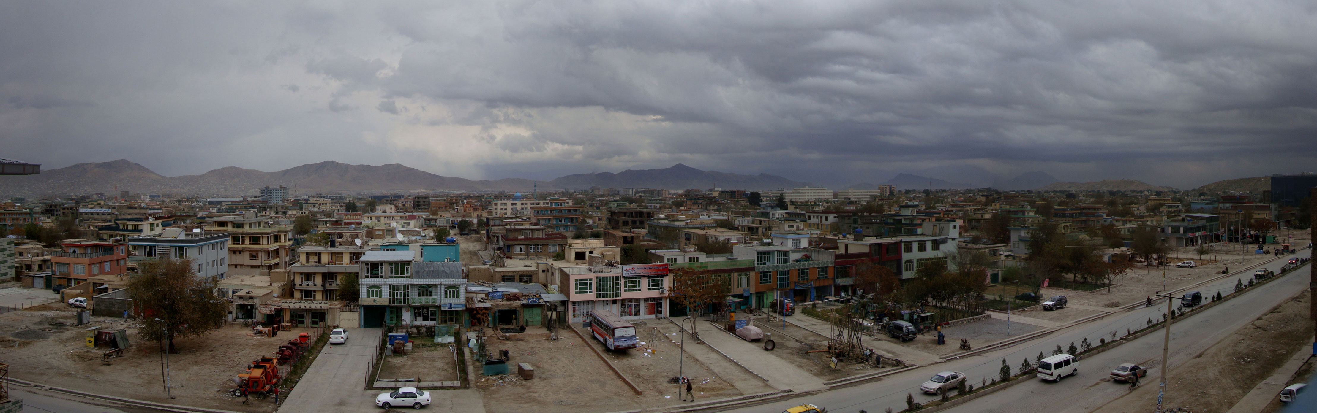 This is a panoramic view of Kabul City showing the east of the city Kair Khana District, heading to the south will lead to KAIA.